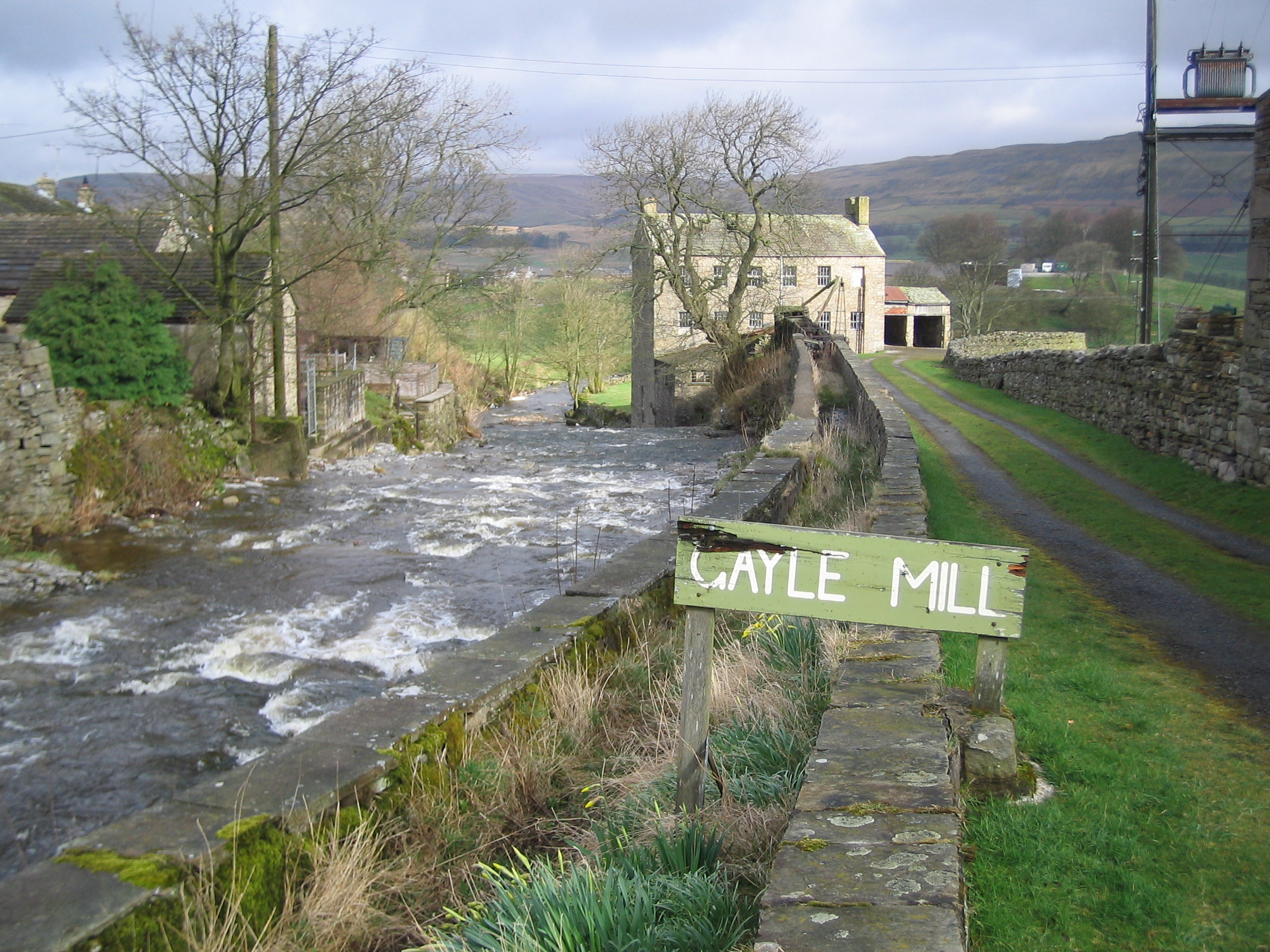 Gayle Mill, North Yorkshire, constructed in 1776